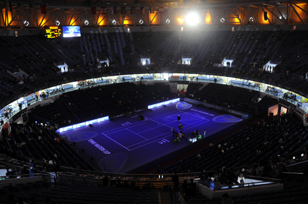 The Qizhong Forest Sports City Arena during the 2008 Tennis Masters Cup